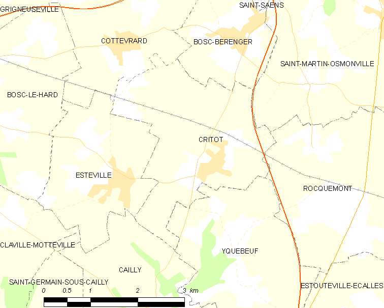 Map of French municipality Critot